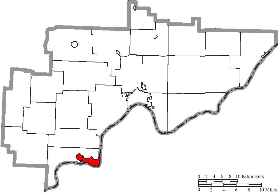 Map of the municipal and township boundaries of Washington County, Ohio, United States, as of the 2000 census, with the location of the city of Belpre highlighted. Township borders are shown only in unincorporated areas in order to differentiate incorporated and unincorporated areas more clearly.